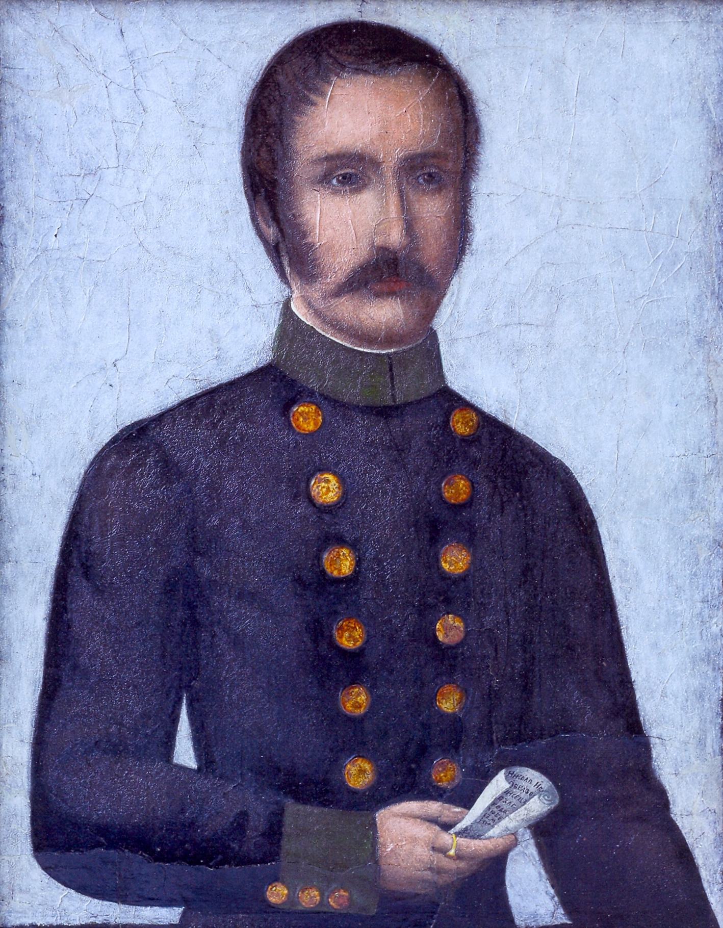 A self-portrait of Nikola Obrazopisov, oil painting, 59/64 cm